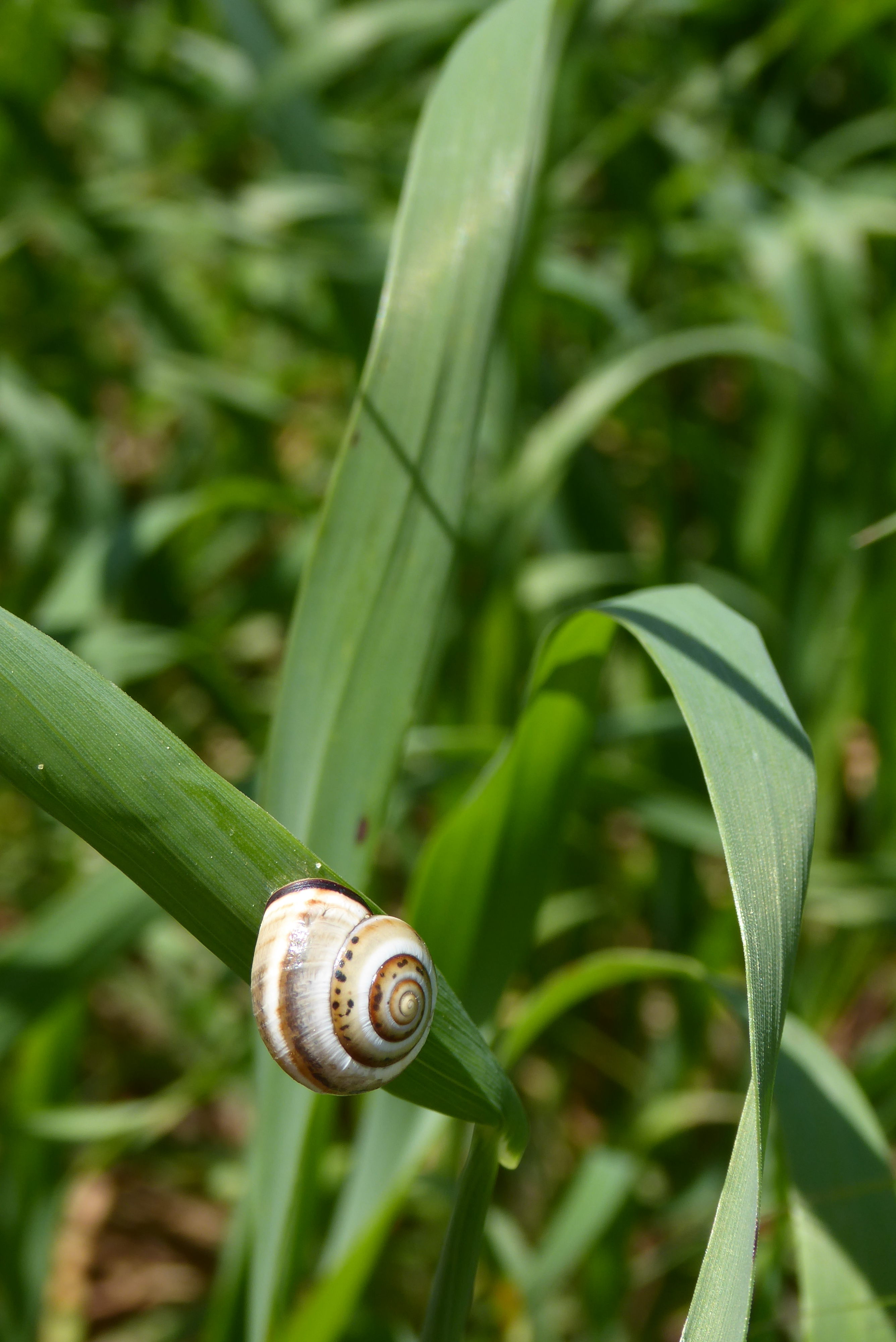 Savion blossoms